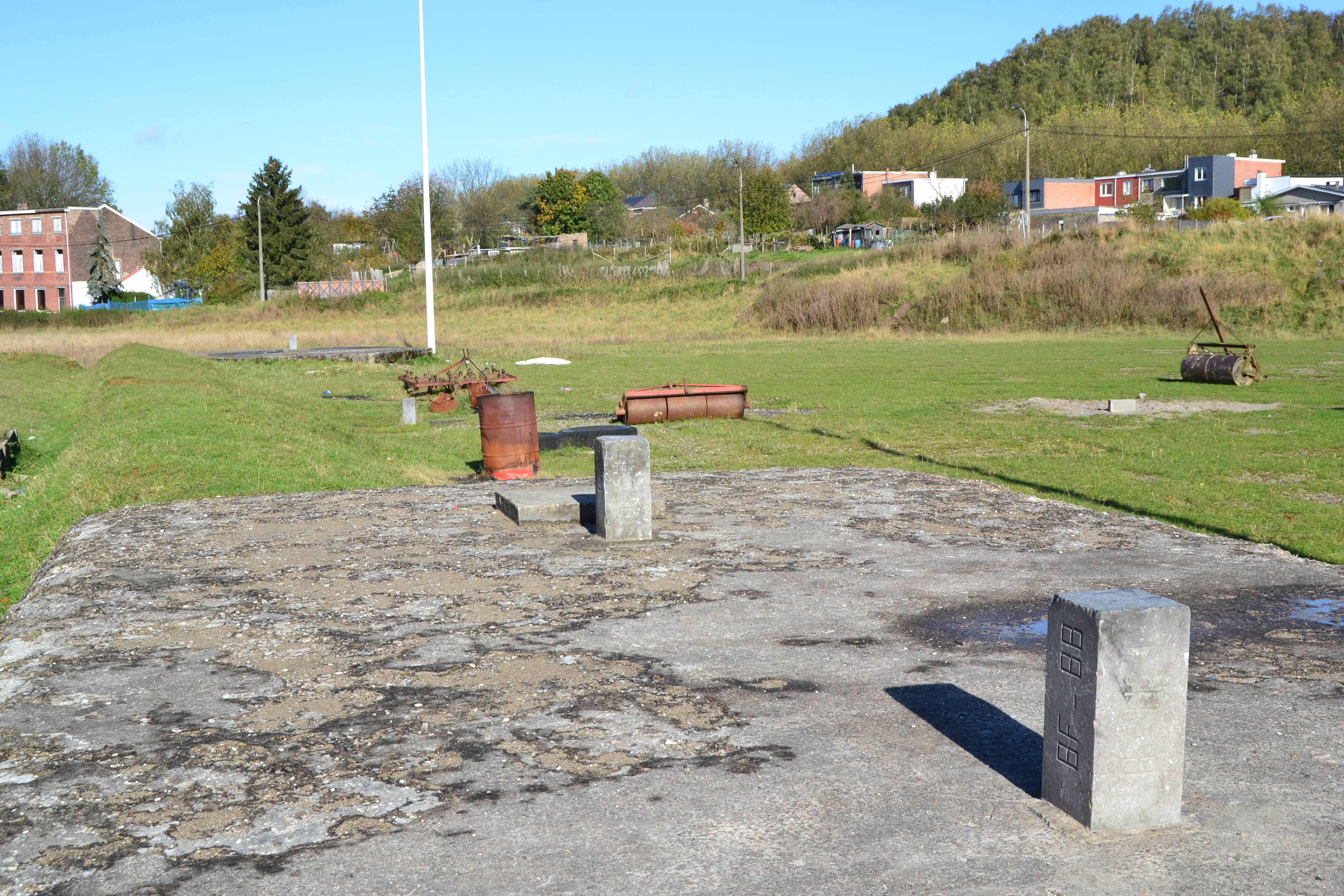 4 ancient pits of the Batterie coal mine in Liège, Belgium, in the St Walburge borrough